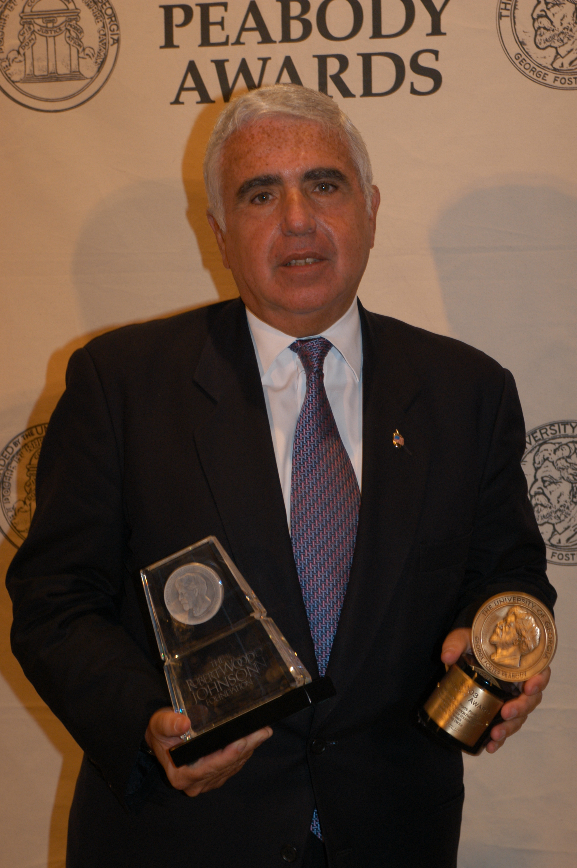 PHOTO CREDIT: ANDERS KRUSBERG / PEABODY AWARDS Mel Karmazin, 63rd Annual Peabody Awards Luncheon Waldorf=Astoria Hotel May 17, 2004